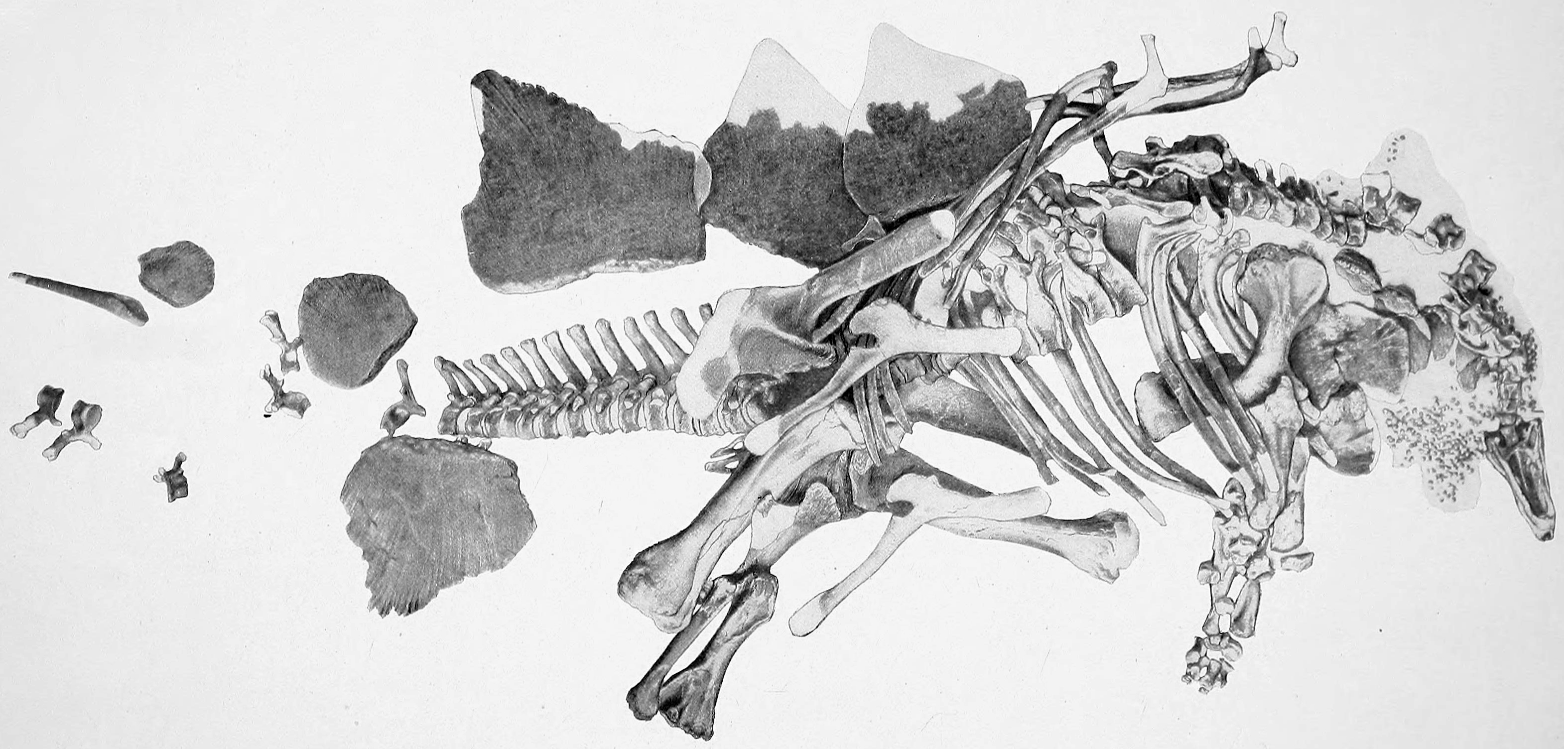 Stegosaurus stenops specimen USNM 4934 as it was found.